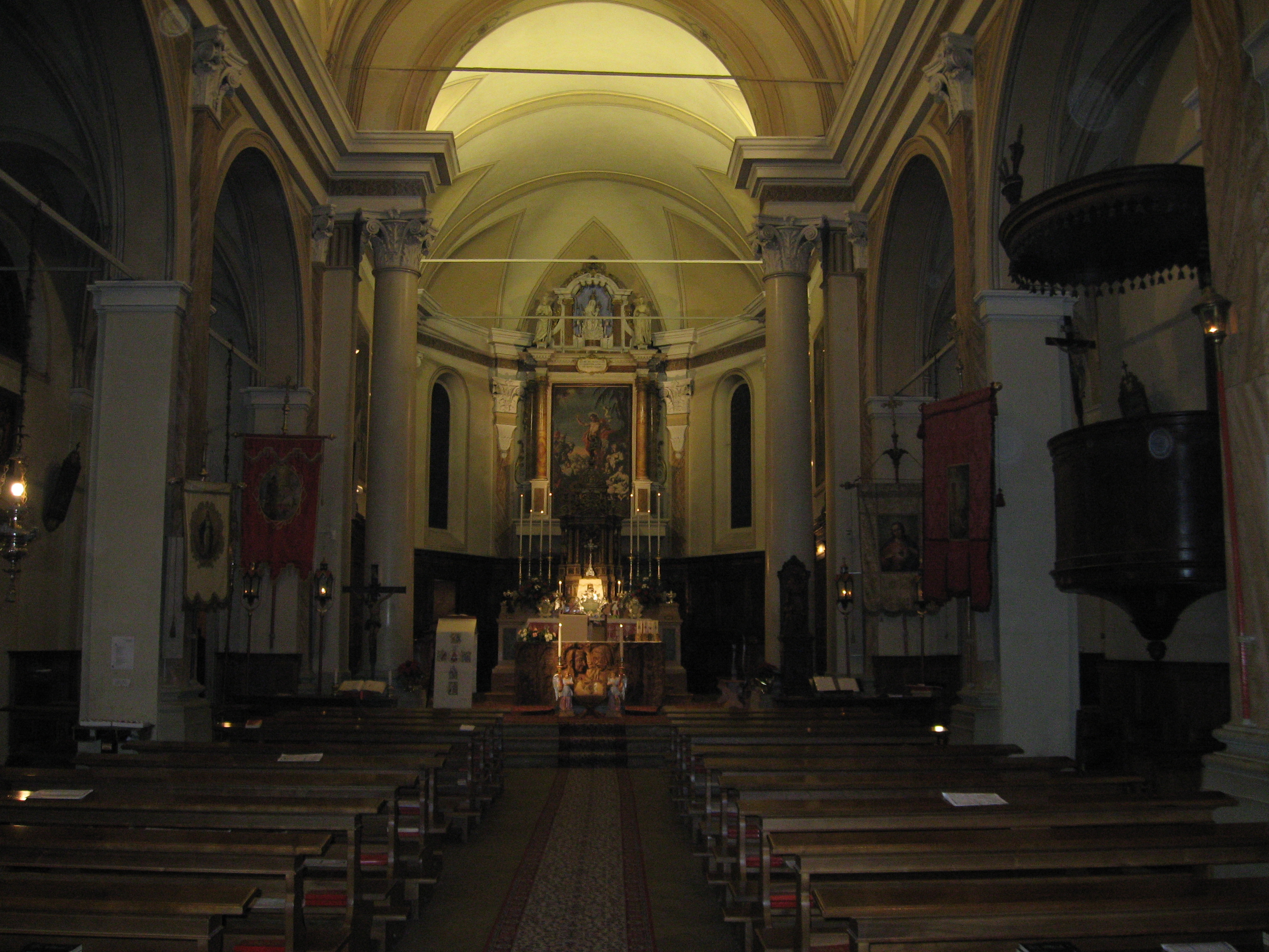 inside view of the Church of Canale d'Agordo